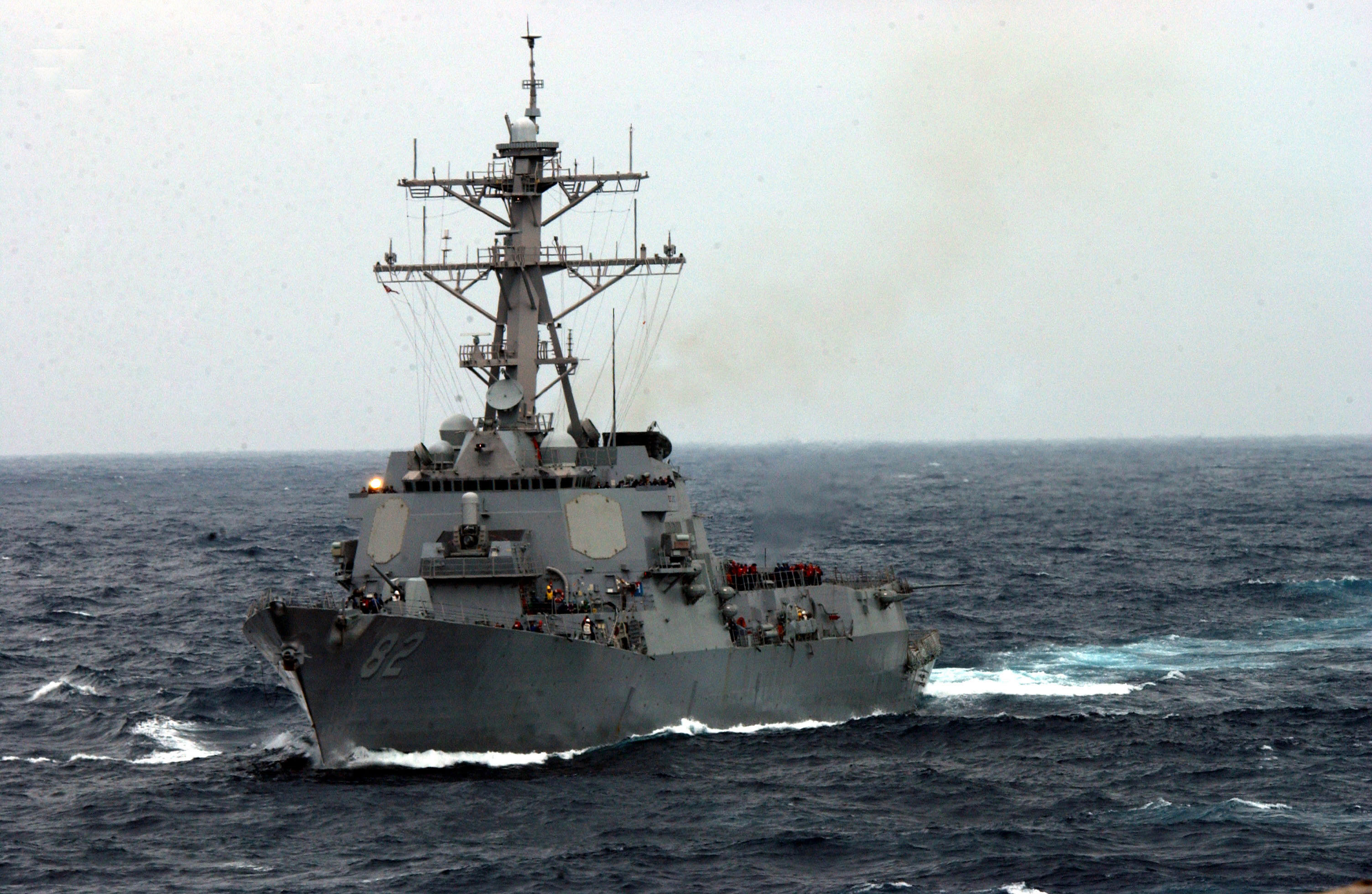 The guided missile destroyer USS Lassen (DDG 82) underway in the rough seas of the East China Sea. Lassen is part of the USS Carl Vinson (CVN 70) Battle Group. Lassen and Carl Vinson have just completed participating in Exercise Foal Eagle and are continuing their deployment in the western Pacific Ocean. Exercise Foal Eagle is an annual joint and combined field training exercise between the U.S. and Republic of Korea armed forces. The exercise is designed to strengthen relationships and improve interoperability between both nations through real world training scenarios.